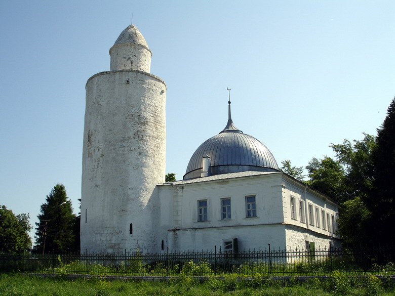 Kasimov, Khan's Mosque and minaret (1462).